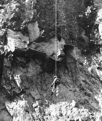 1960 Mount Tanigawa Accident